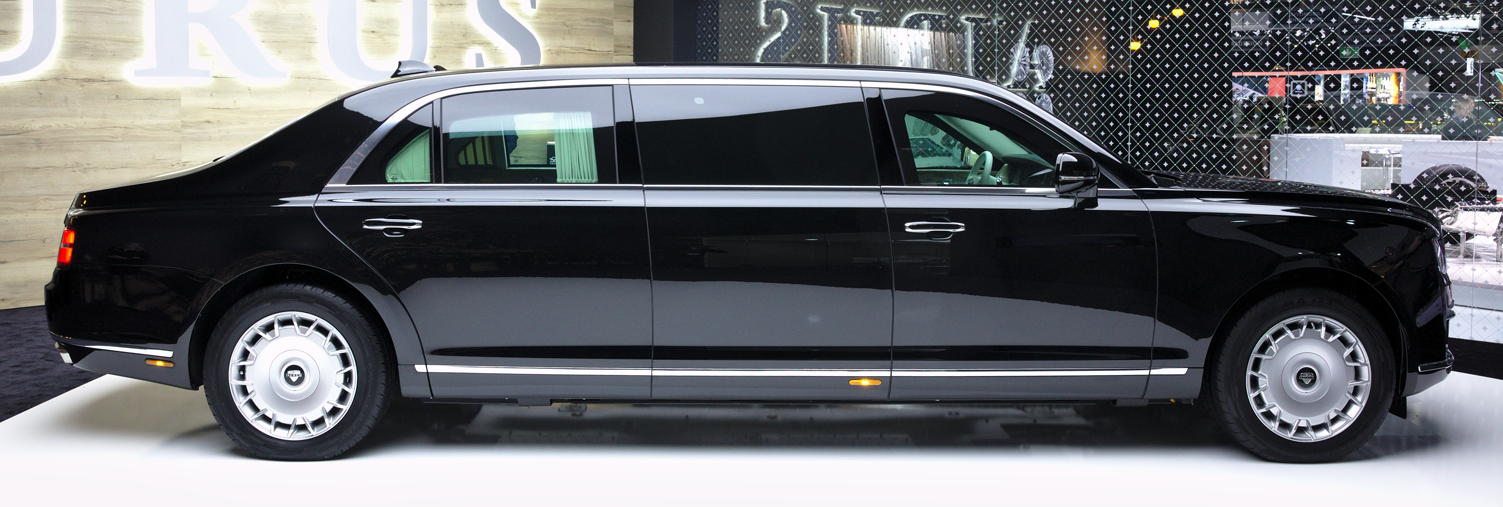 Aurus Senat at Geneva Motor Show 2019